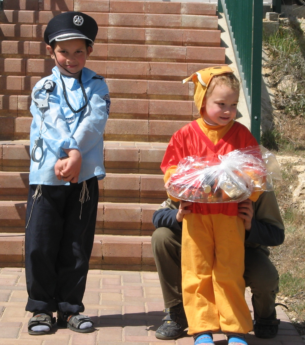 Children on their Way to give Mishloach Manot